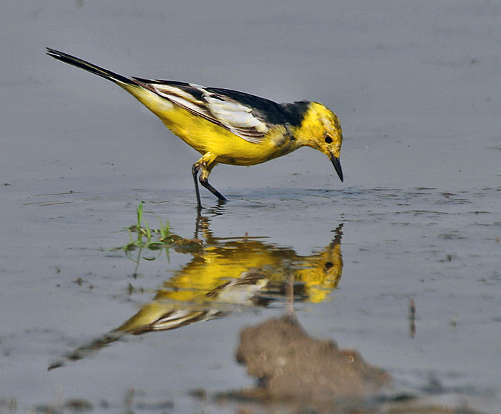 Citrine wagtail, (Motacilla citreola) at Keoladeo National Park, Bharatpur, Rajasthan, India.